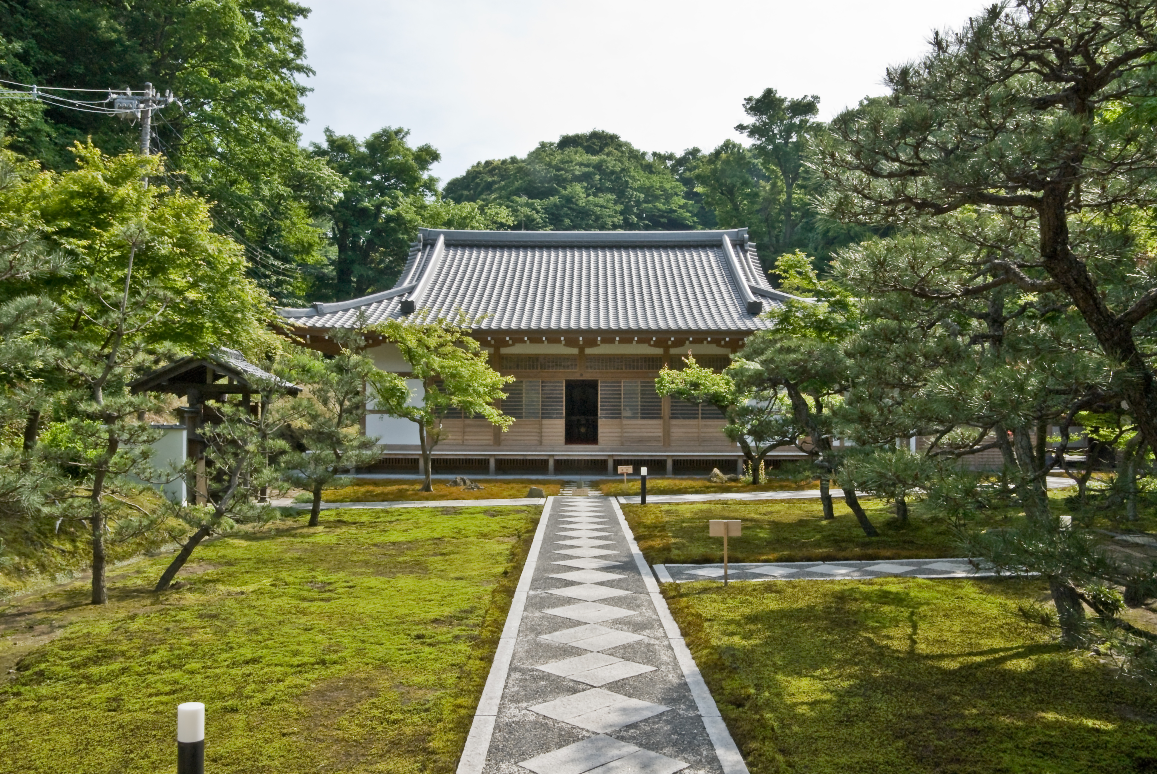 Chōjū-ji's main hall. Chōjū-ji is a Buddhist temple in Kita-Kamakura